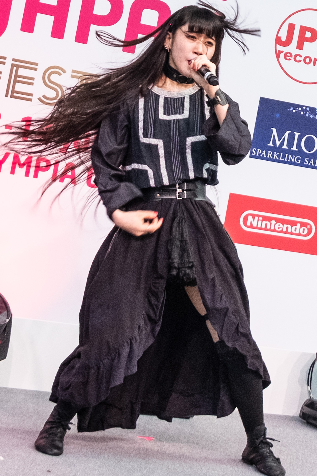 Himari Tsukishiro at the stage on HyperJapan 2019 (14 July 2019, London, UK)